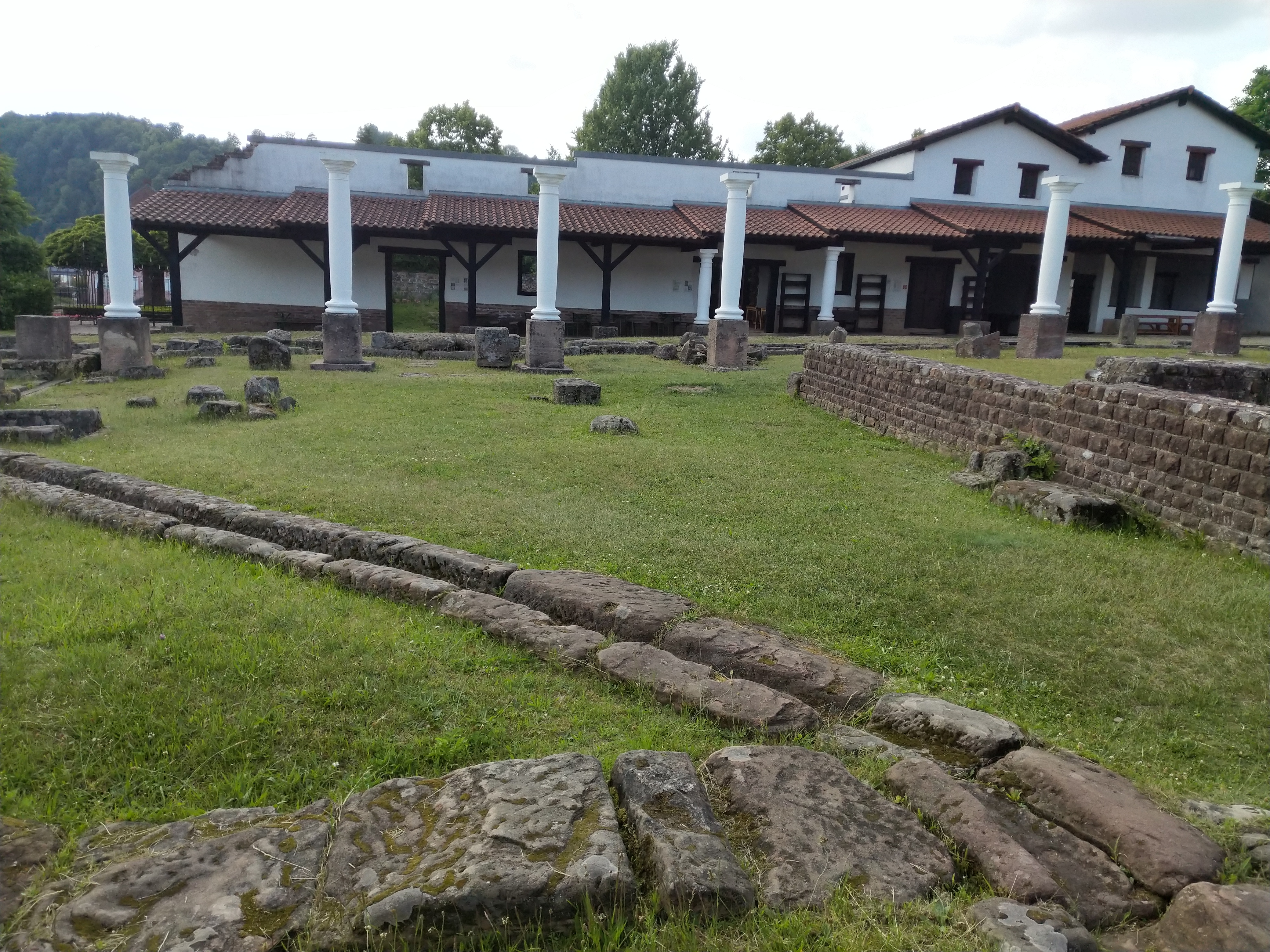 Roman Ruins in Einöd Schwarzenacker